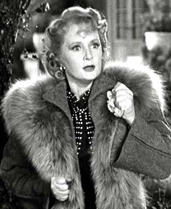 Cropped screenshot of Billie Burke from the film Topper Returns.